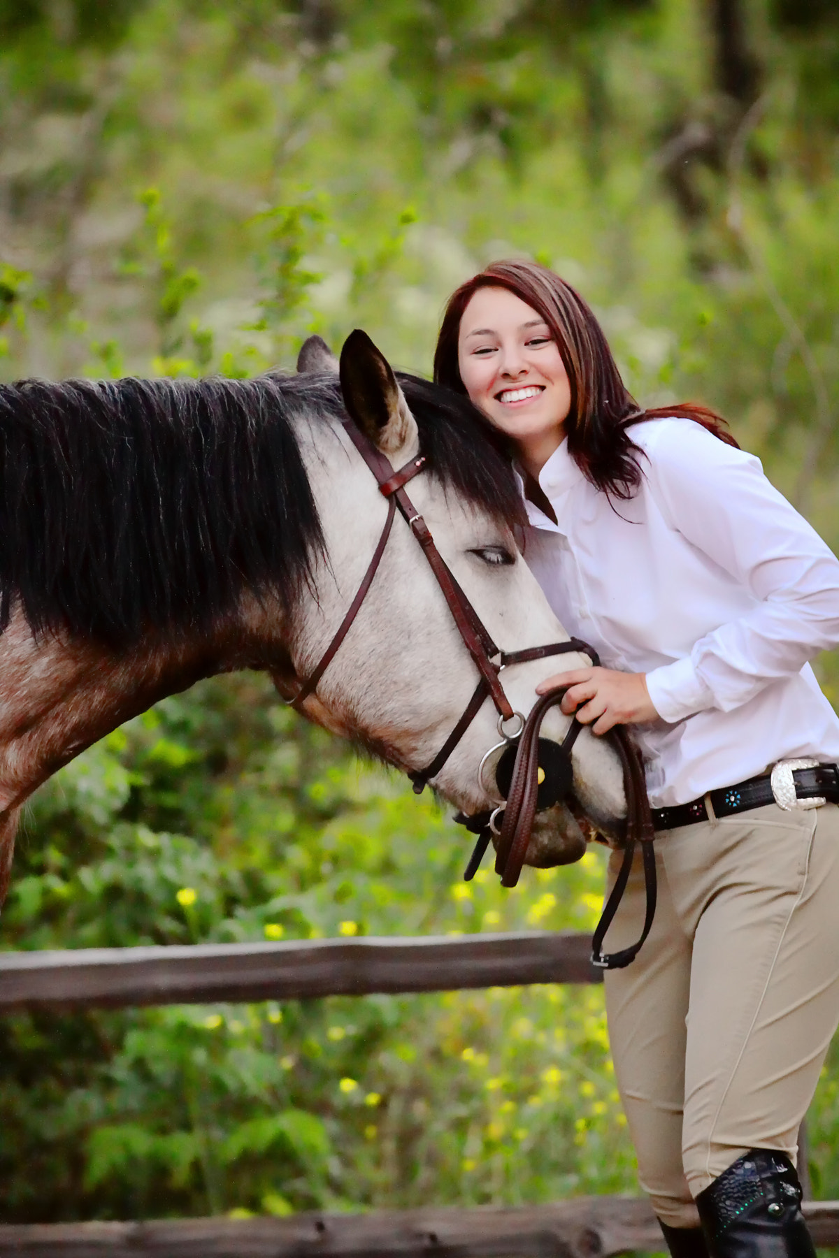 500px provided description: A teenage girl and her Connemara mare share a special moment out on the trail in Orange California [#Horse ,#Trail ,#Orange ,#Connemara ,#Mare ,#Hug ,#Friendly ,#Teenage Girl]